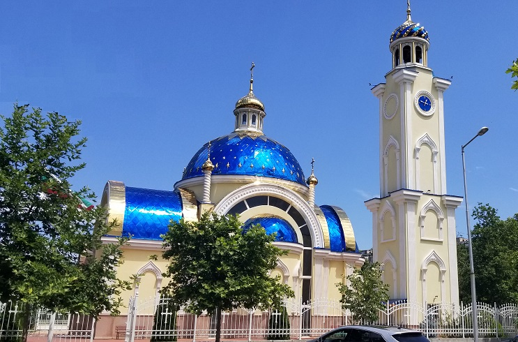 St. Nicholas Mirlikiysky, Plovdiv